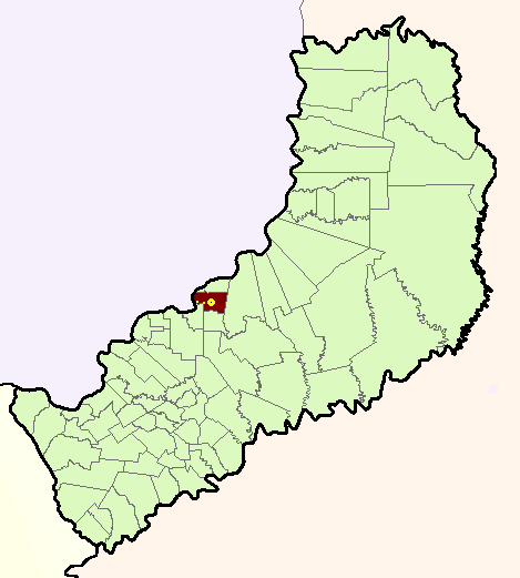 A map of Capioví's municipio in Misiones province, Argentina. The big point is Capioví town, the little points are San Gotardo town (left) and Villa Akerman town (right).